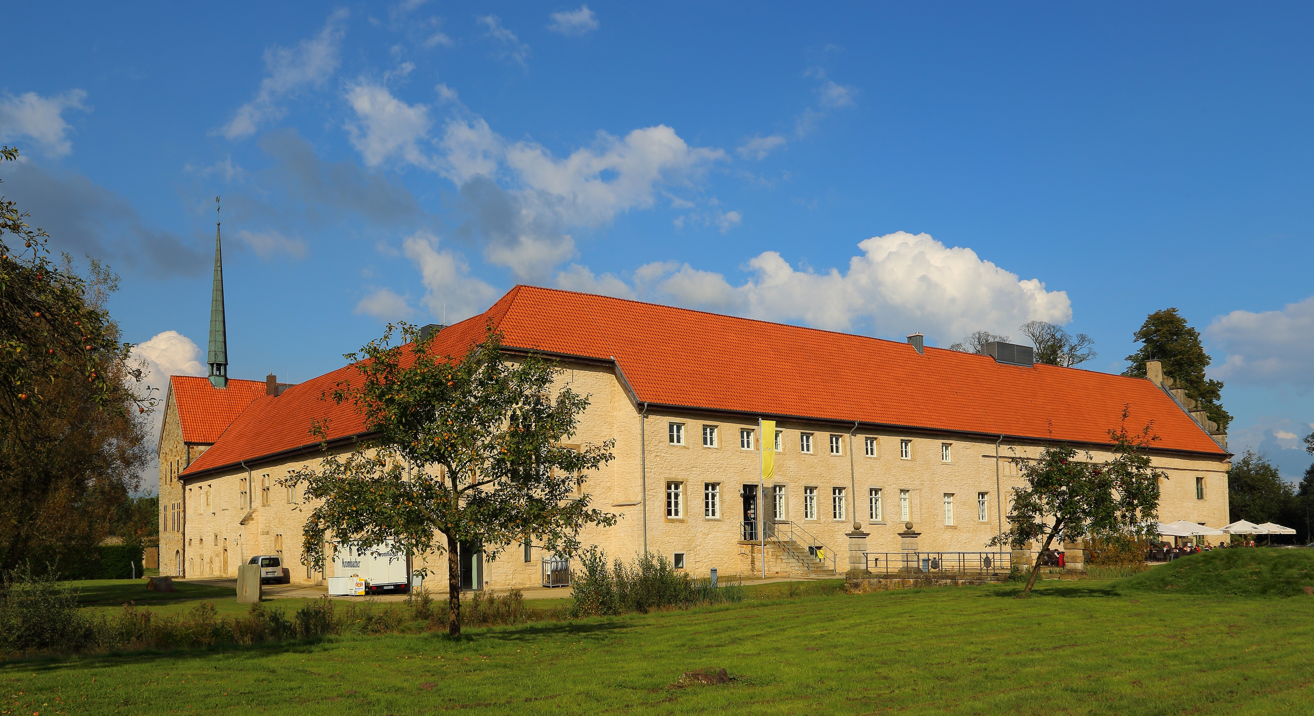 Kloster Gravenhorst, a former Cistercian monastery in Hörstel-Gravenhorst, Kreis Steinfurt, North Rhine-Westphalia, Germany.